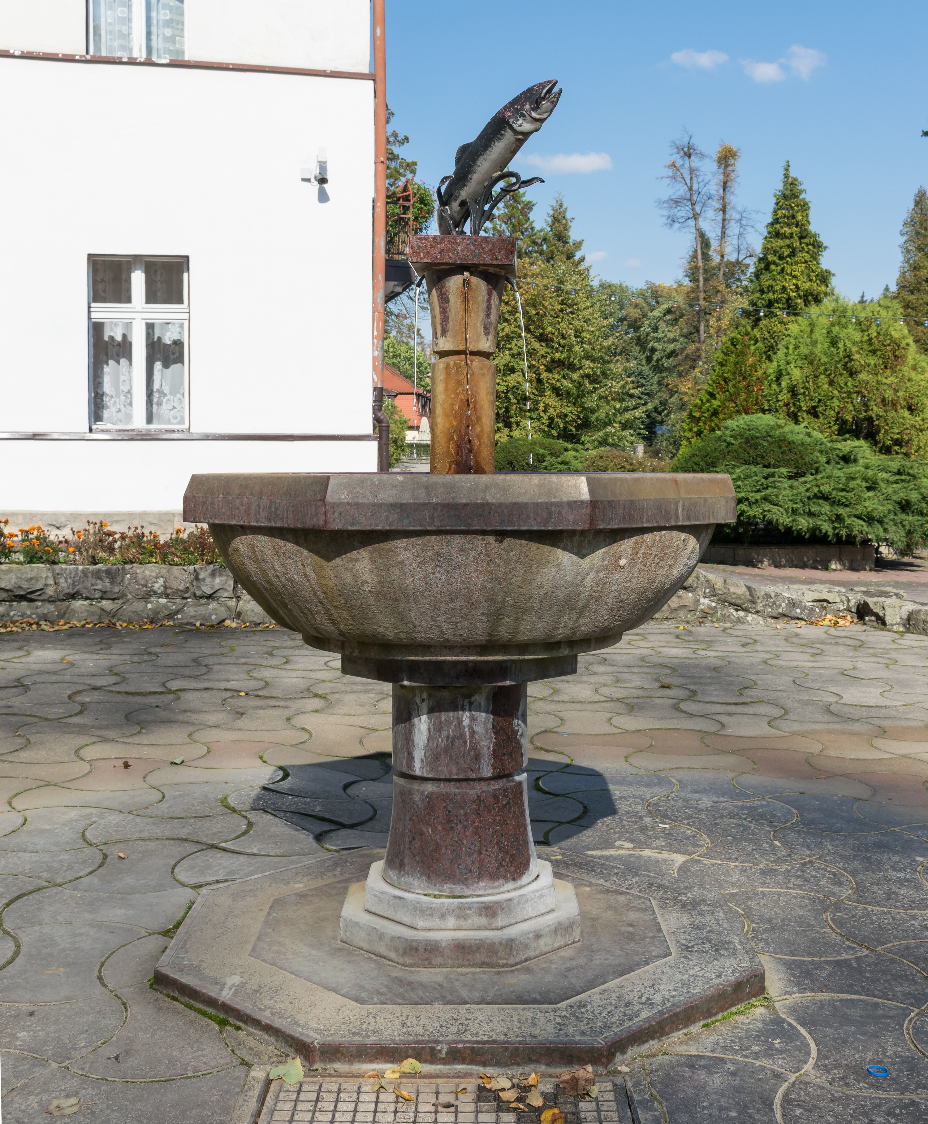 Spa Park in Długopole-Zdrój Wikidata has entry Q30046544 with data related to this item.